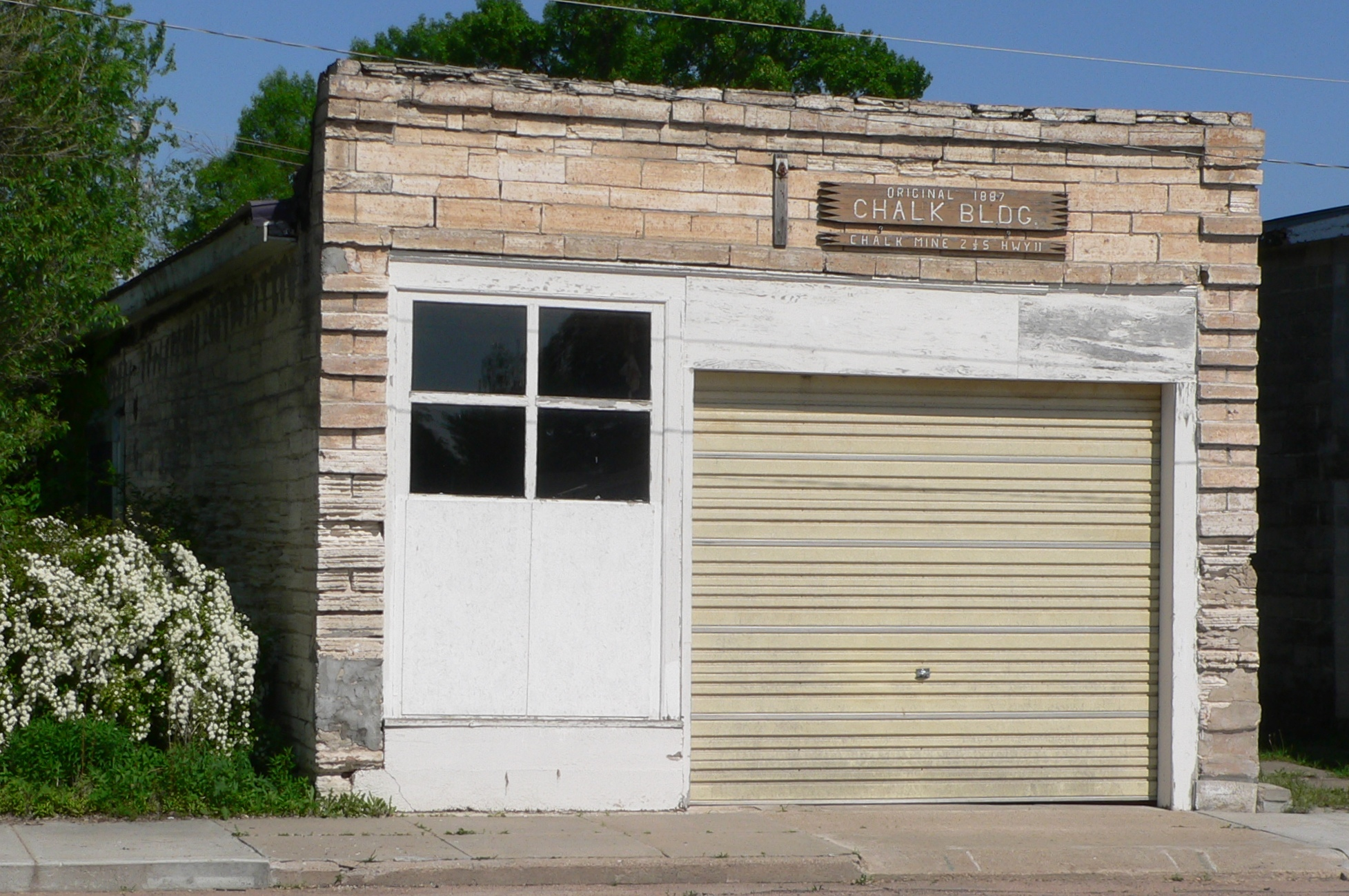 Scotia Chalk Building in Scotia, Nebraska; seen from the northwest. The building was constructed in 1887, using chalk rock from a local quarry. It is listed in the National Register of Historic Places.